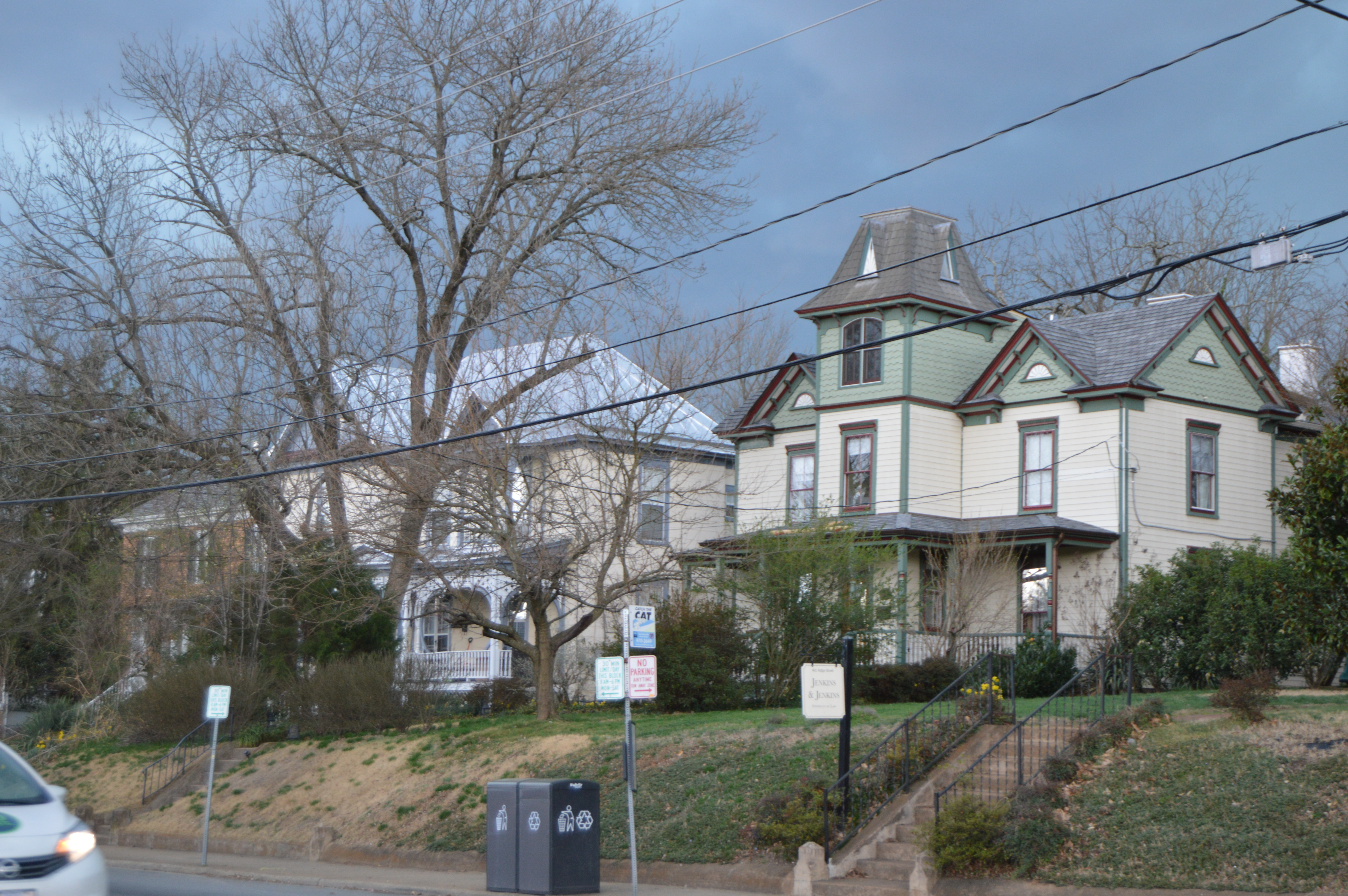 Houses on the western side of Ridge Street, just south of the Oak Street intersection, in Charlottesville, Virginia, United States. They are part of the Ridge Street Historic District, a historic district that is listed on the National Register of Historic Places.